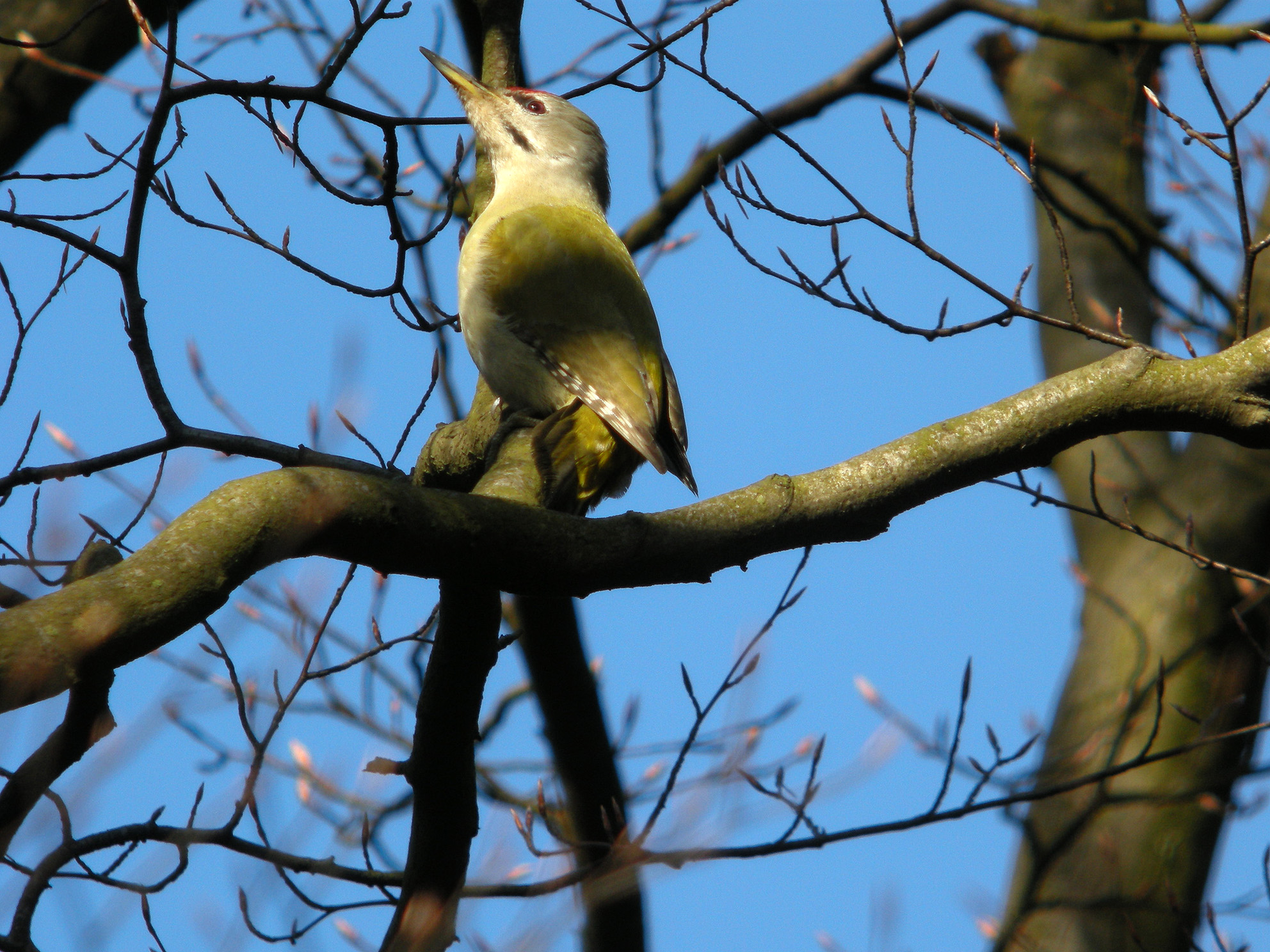 Grauspecht Picus canus, Staatswald Rocherath, Ostbelgien. Digiscoping with Swarovski ATM 80 HD 30 X, Coolpix P5100 (Adapter DCB).